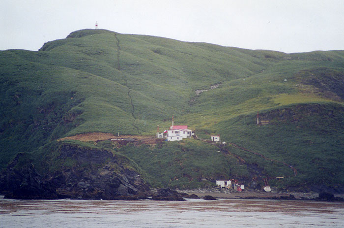 Photo of research station on the Diego Ramirez Islands